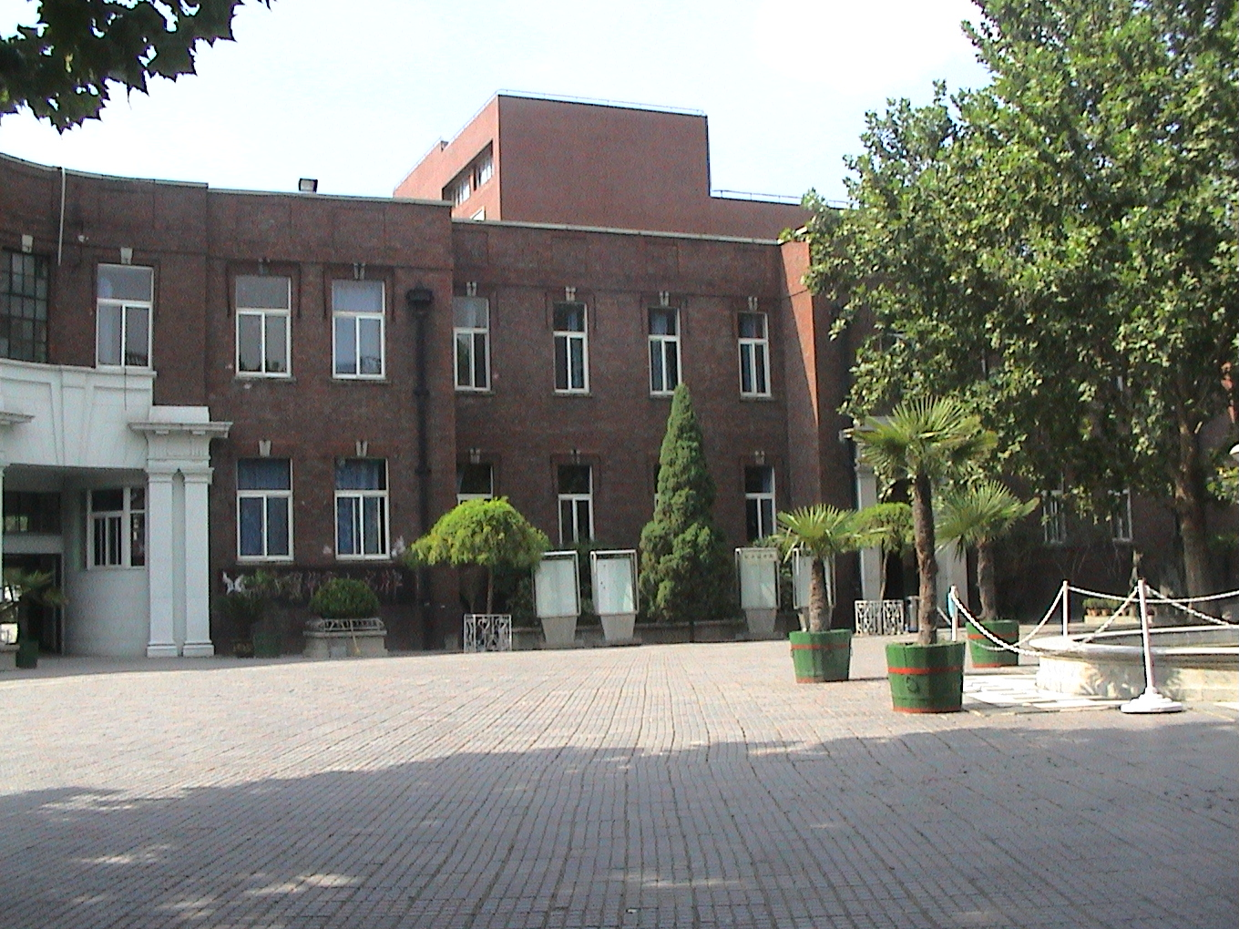 Yaohua High School 2002-07-26 07:06:20 UTC